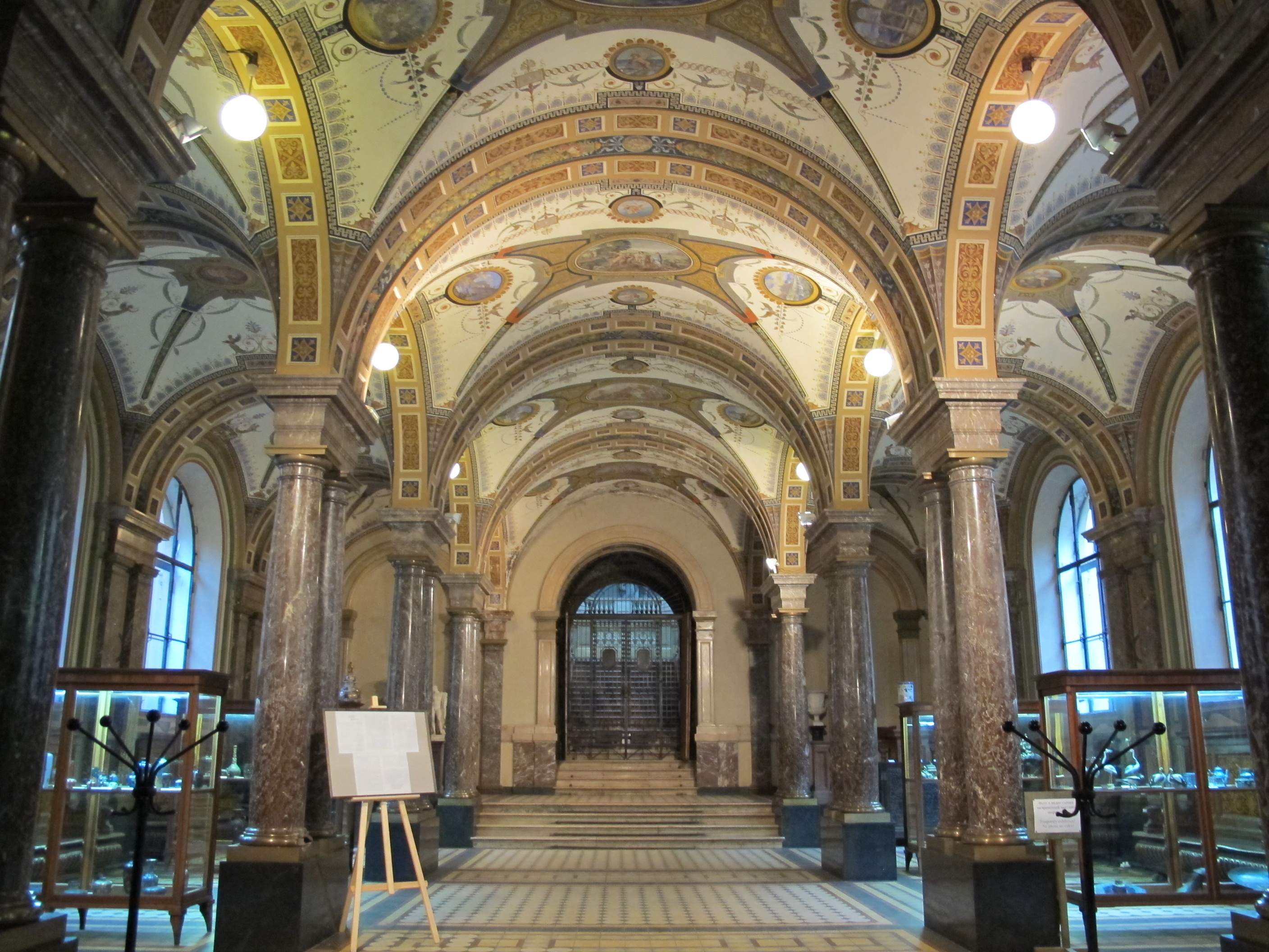 Stieglitz Museum of Decorative and Applied Arts (atrium).